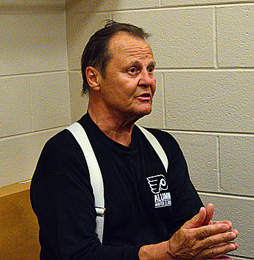 Hockey Hall of Fame center Bill Barber of the Philadelphia Flyers after his last ever competitive hockey game, the Flyers 50th Anniversary Alumni Game against the Pittsburgh Penguins alumni played at the Wells Fargo Center in Philadelphia on January 14, 2017.